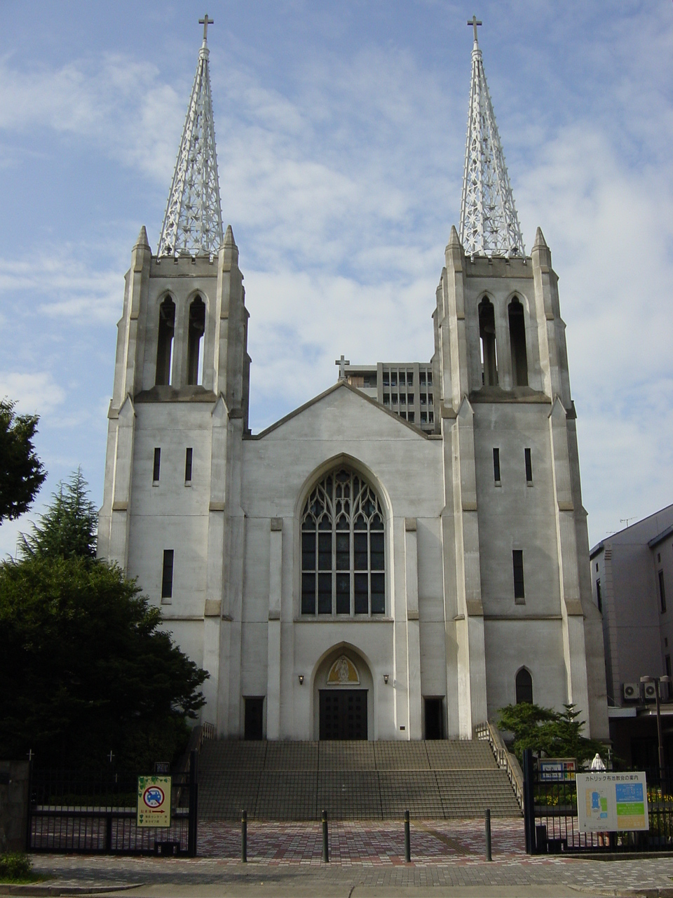 Nagoya higashiku kinjou kyoukai